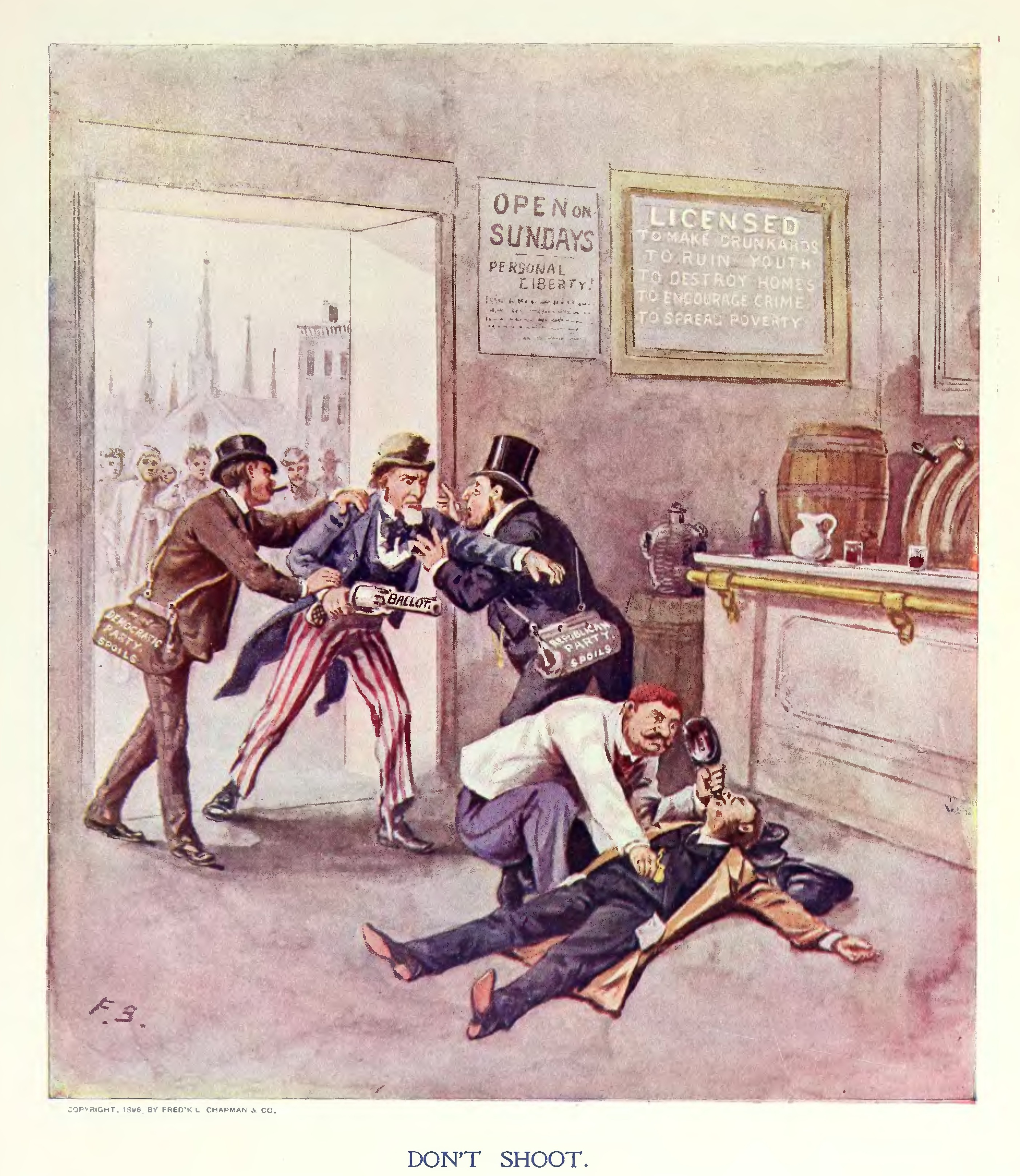 Originally published individually in The Ram's horn